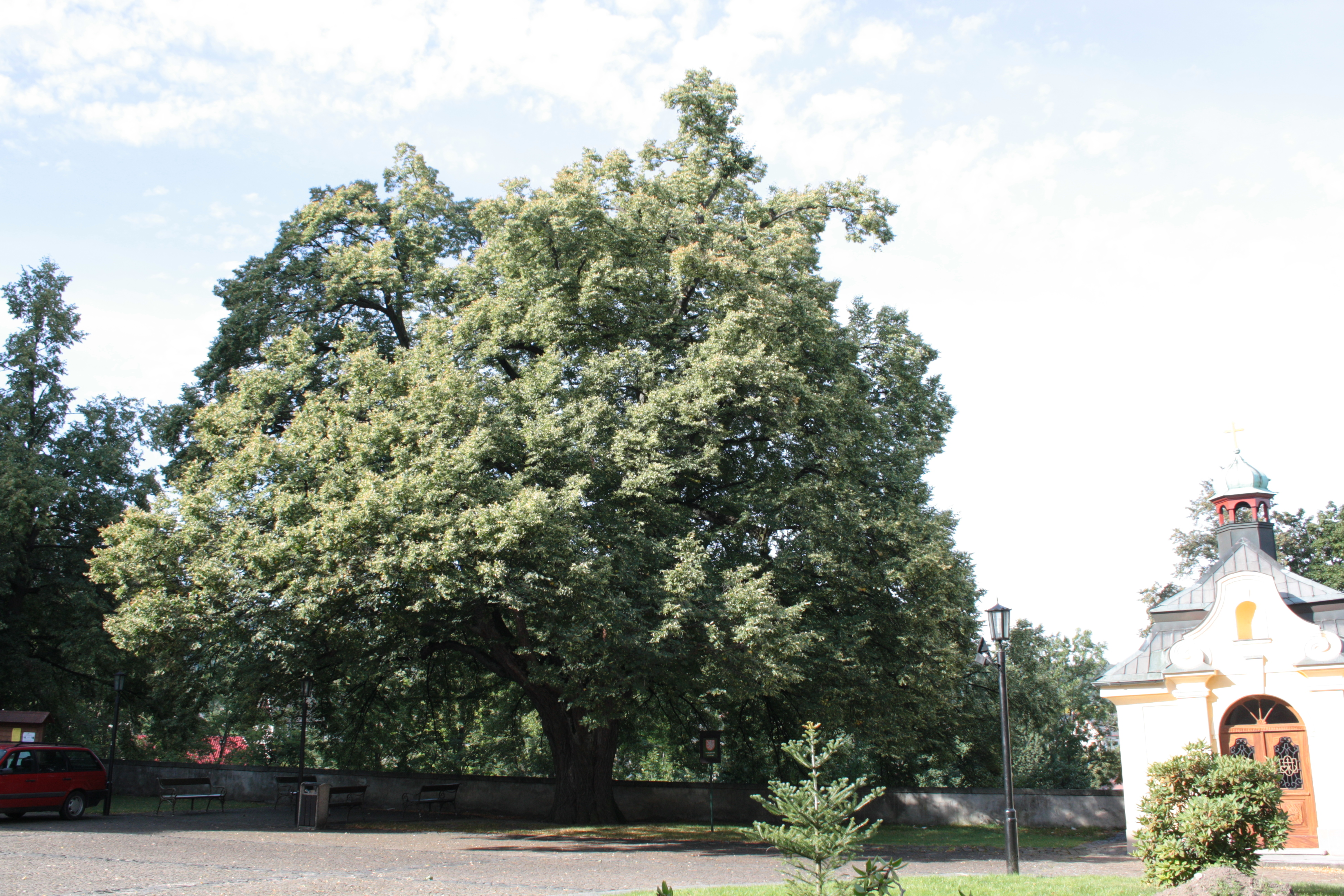 This photograph was taken with a DSLR from WMCZ's Camera grant. Lípa srdčitá před bazilikou v Hejnicích.